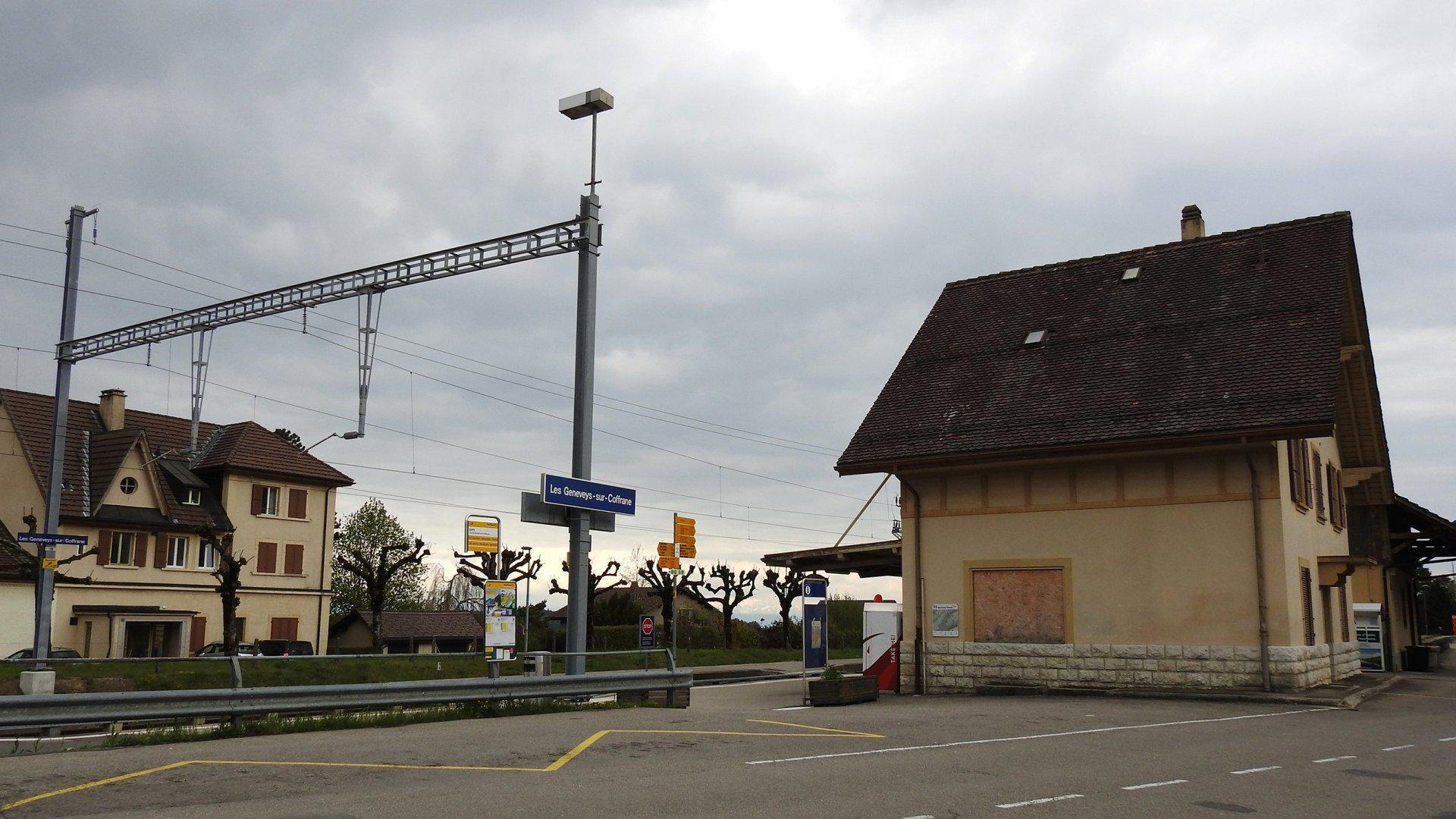 Les Geneveys-sur-Coffrane railway station in Val-de-Ruz, Switzerland.